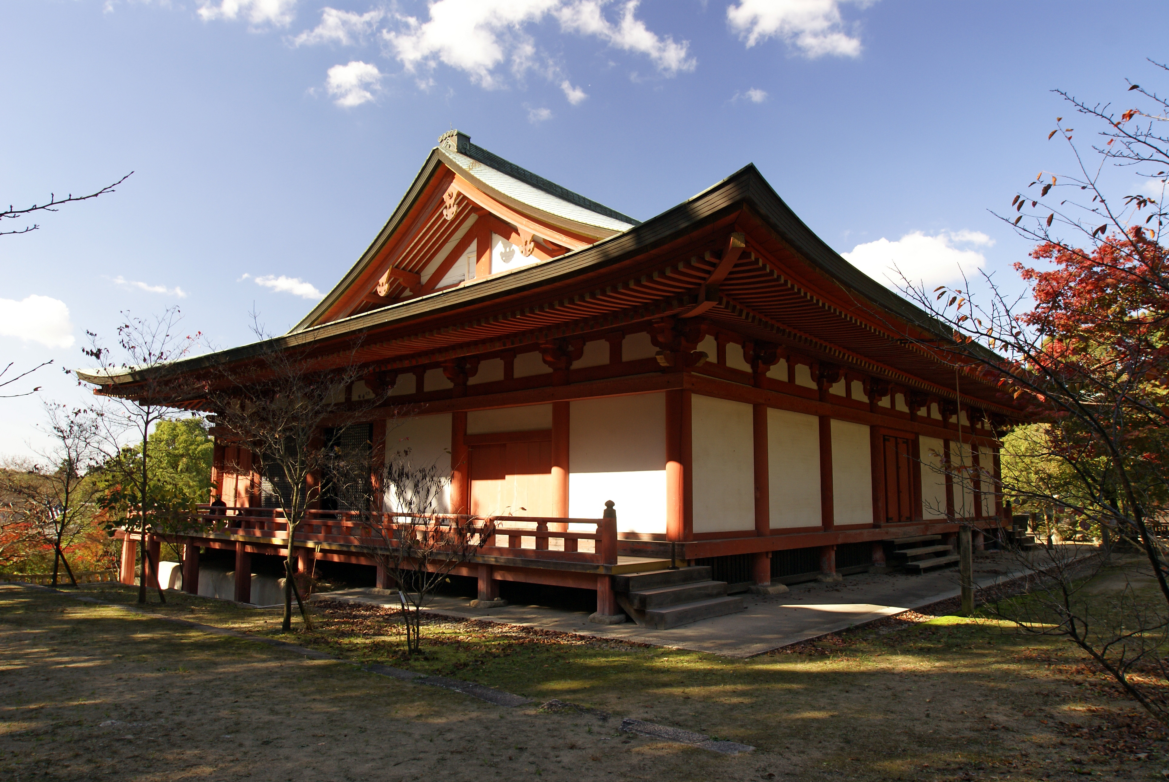 Taisanji Buddhist temple in Kobe, Hyogo prefecture, Japan Opening in 716. This photograph is the Hondo (Japan's National Treasure). It was built in 1293.